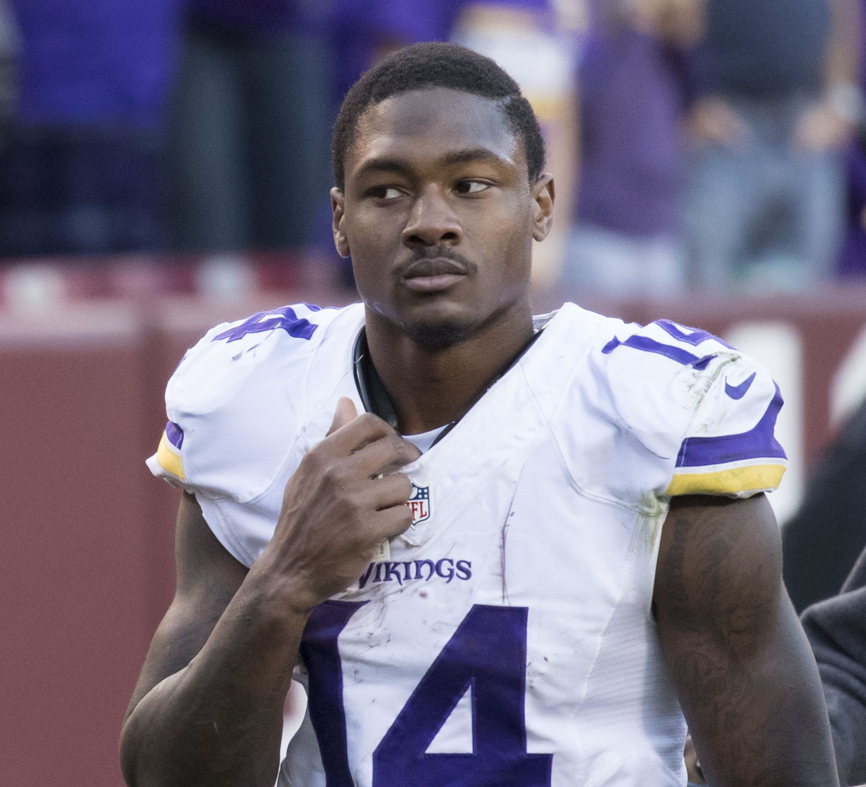 Vikings at Redskins 11/13/16